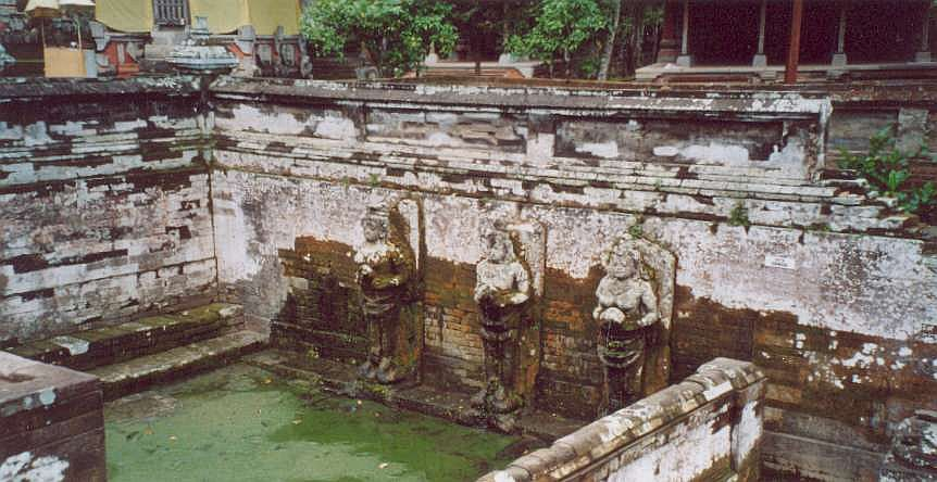 Detail of fountain at Goa Gajah, the elephant cave (near Ubud, Bali)